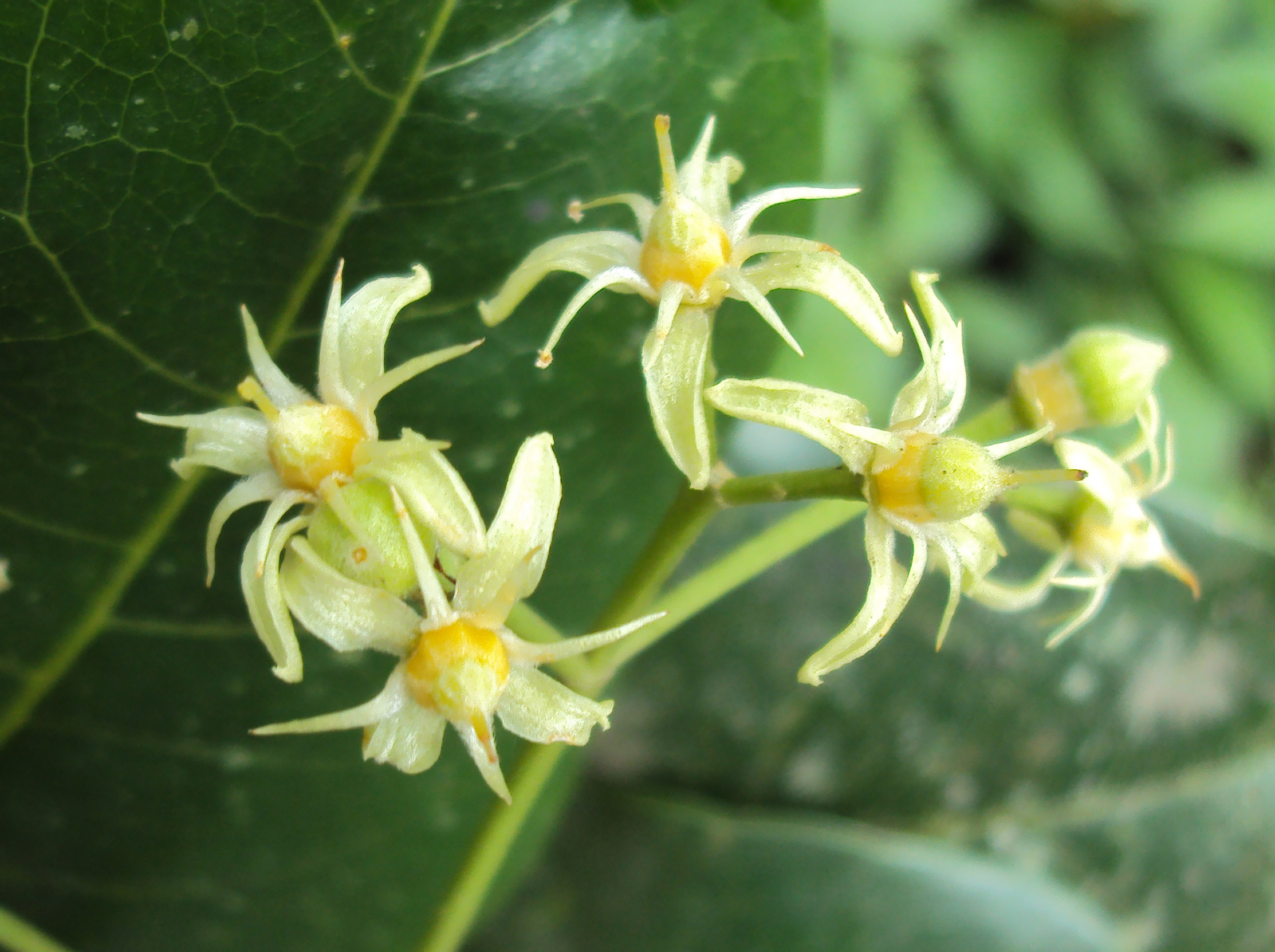 Acronychia pedunculata